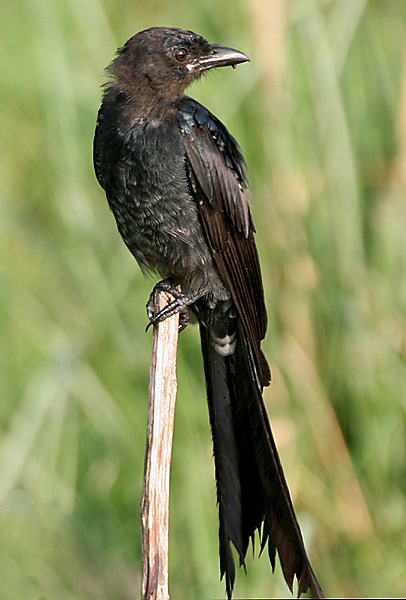 Black Drongo Dicrurus macrocercus in Kolkata, West Bengal, India.